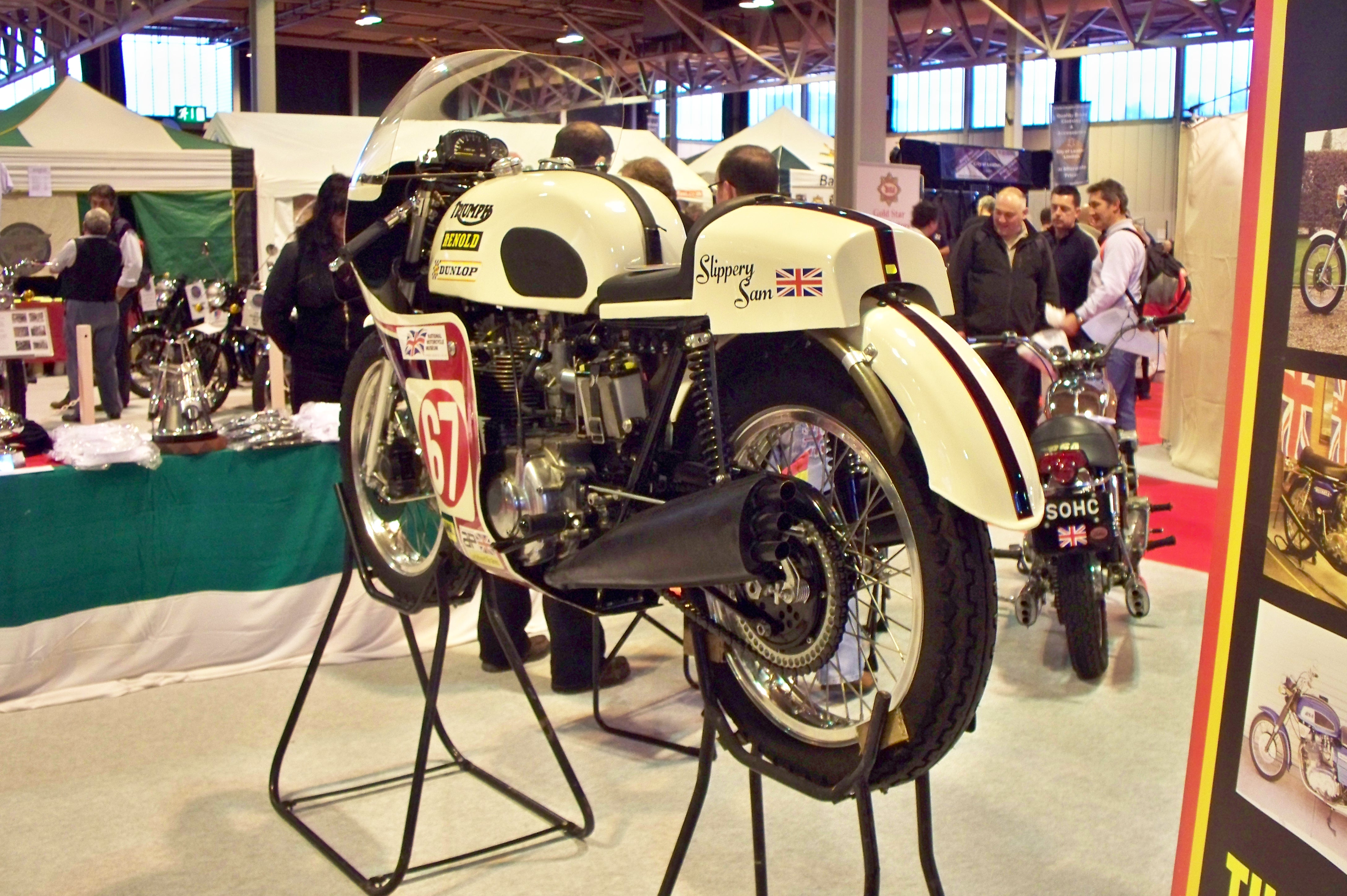 Slippery Sam, a road-based production-class race machine from the early 1970s prepared to a restricted formula, using selected adaptations only available from the factory as part-numbered inventory, seen as a static exhibit at the Classic Car and Bike Show in 2009